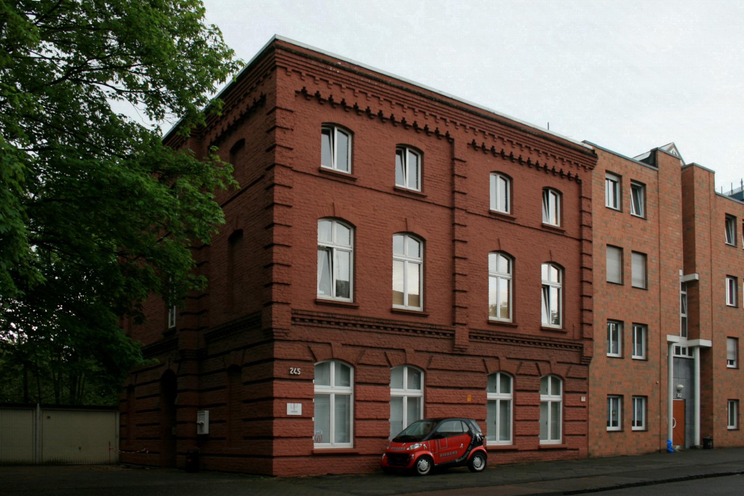 Cultural heritage monument No. R 028 in Mönchengladbach